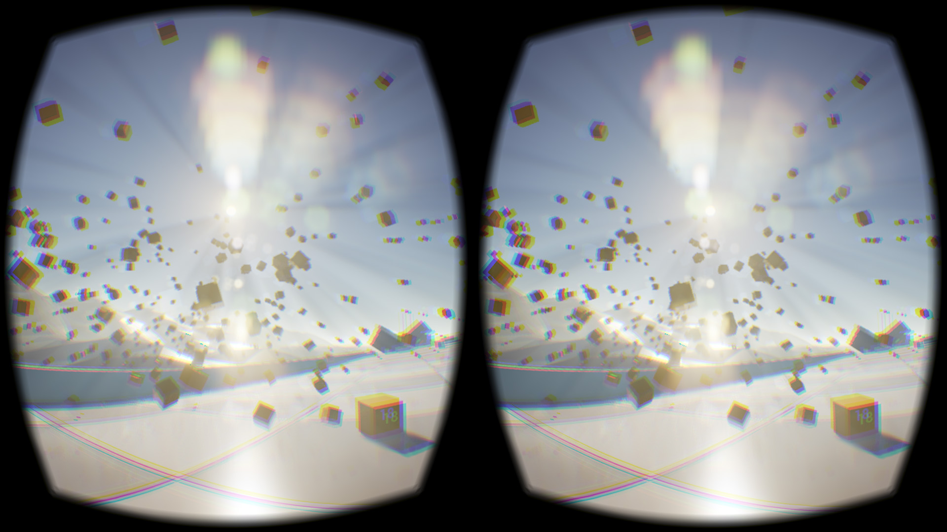 The image that is sent to Oculus DK2, displaying barrel distortion and chromatic aberration correction filters. So that the image is undistorted for the user looking at it through the lenses of the head-mounted display.